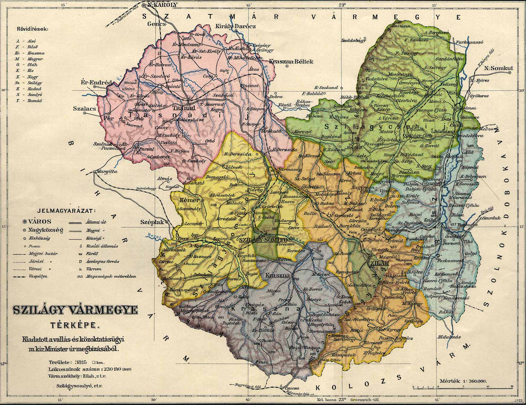 Administrative map of the county of Szilágy in the Kingdom of Hungary